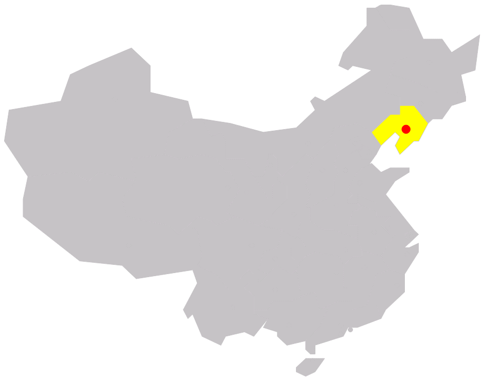 Description: position of Anshan in China Source: own work Date: December 2005 Author: --Immanuel Giel 11:25, 19 December 2005 (UTC) Other versions: none